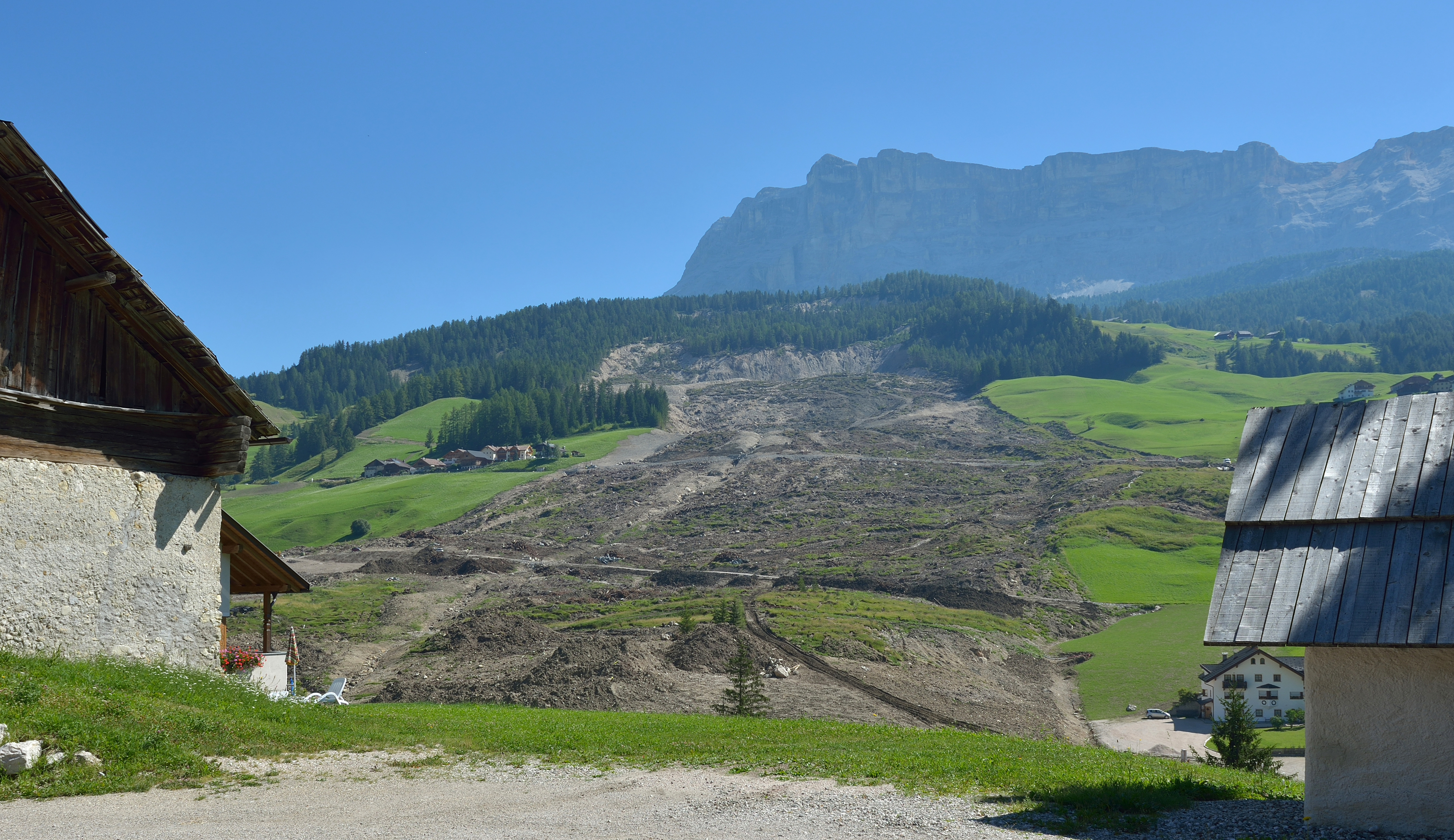 Landslide of December 14, 2012 in Badia South Tyrol eight months after